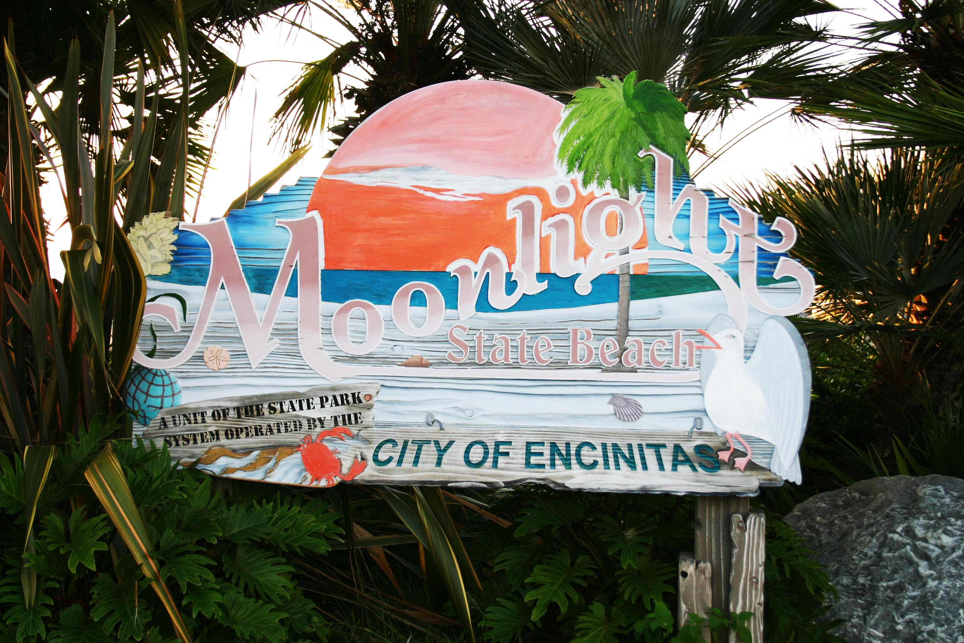 Signboard at south-east corner of upper car park at Moonlight Beach, Encinitas, California.